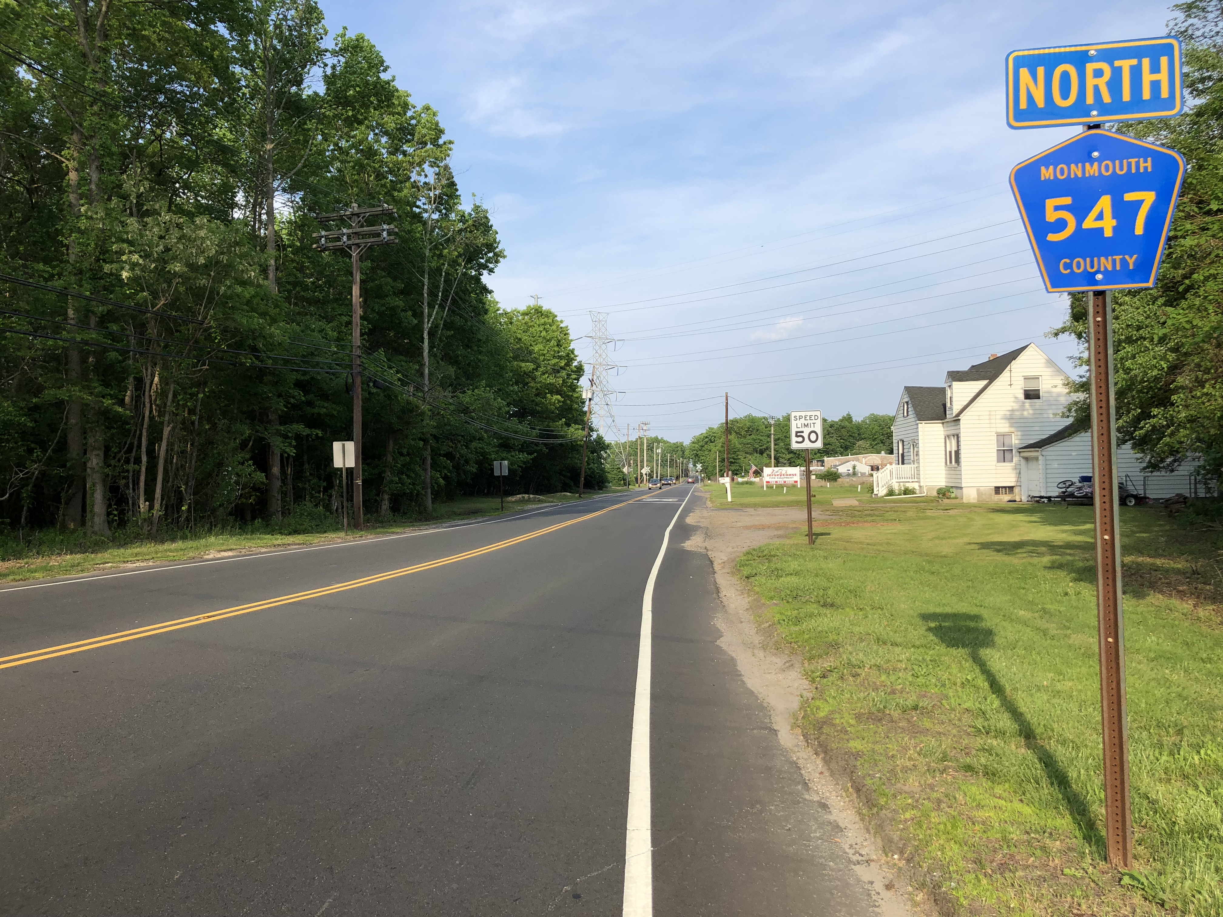 View north along Monmouth County Route 547 (Asbury Road) at Tinton Falls Road and Turley Lane in Howell Township, Monmouth County, New Jersey